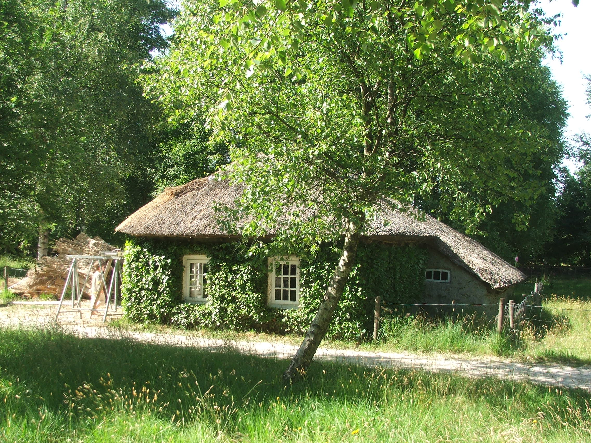 Moormuseum Moordorf - simple house